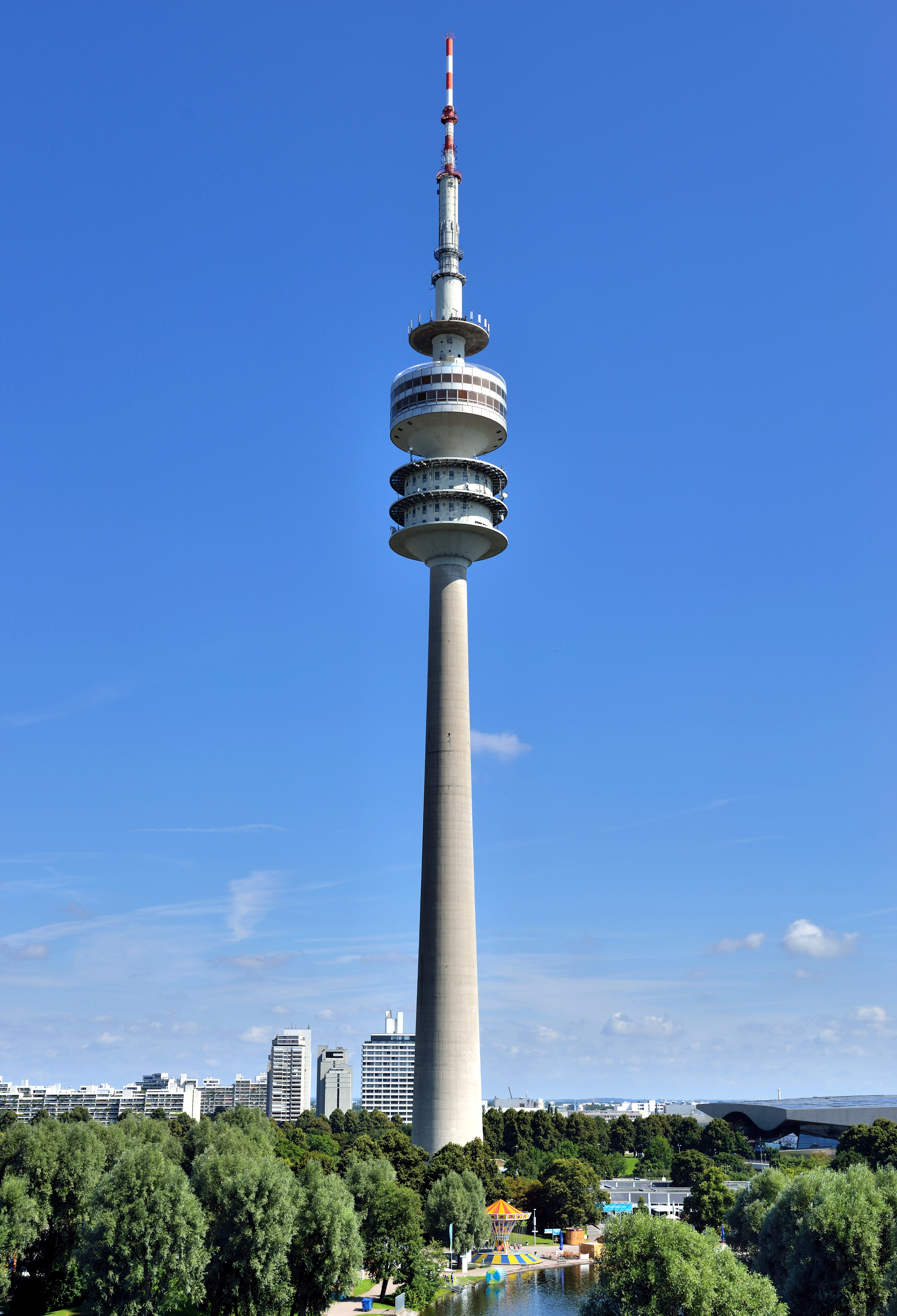 Munich: Olympic Tower